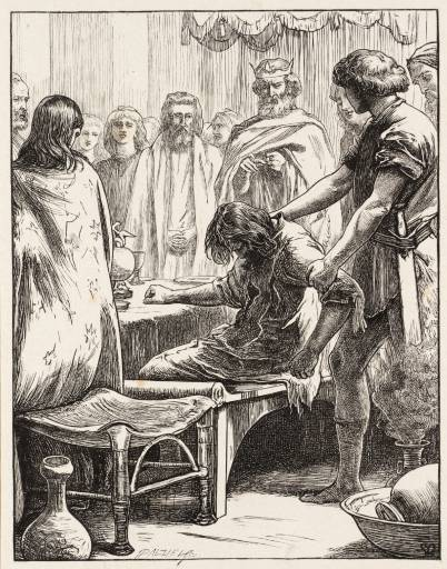 From Illustrations to 'The Parables of Our Lord', engraved by the Dalziel Brothers